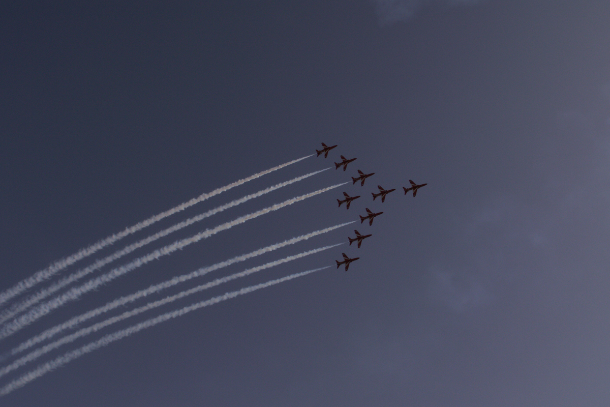 Red Arrows in Athens